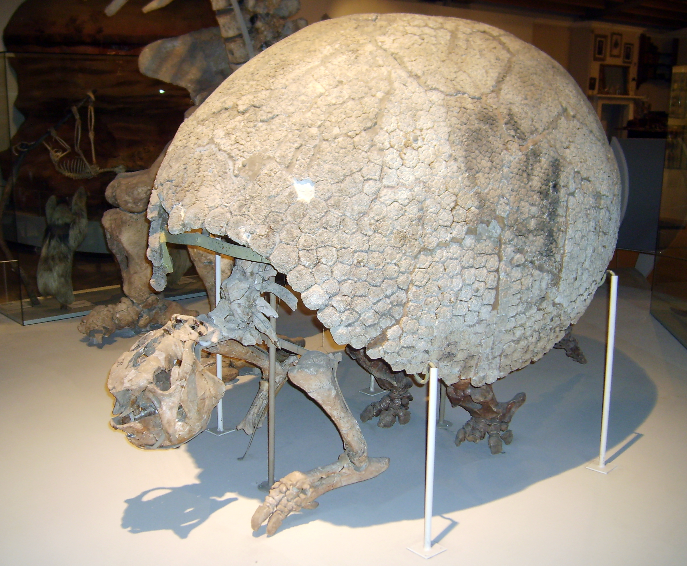 Glyptodon fossil collected by Peter Wilhelm Lund, Zoological Museum, Copenhagen.